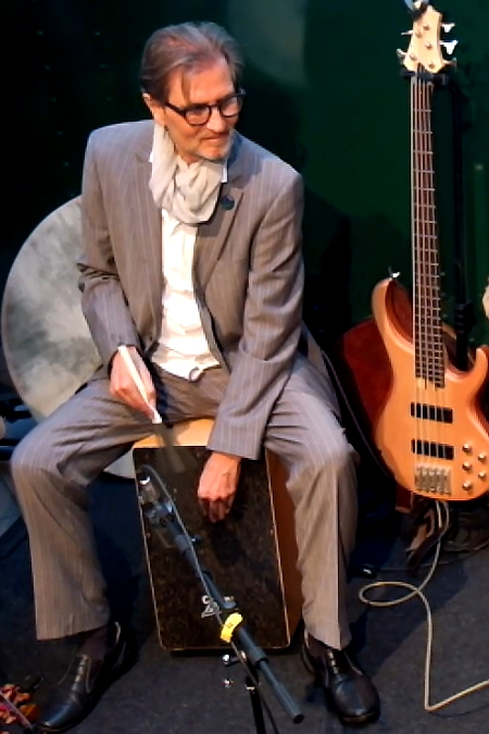 Urs Fuchs 2016 on stage in Ennepetal (Germany) with Ulla van Daelen-Duo (HD video still, cutout makes low resolution)